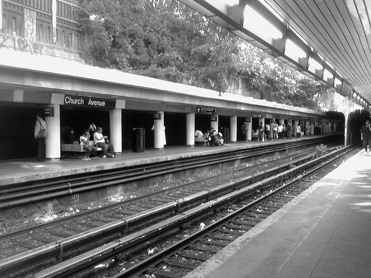 The Church Avenue station.